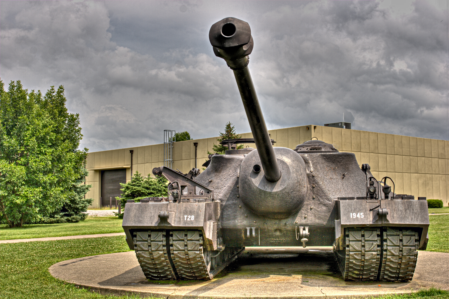 This old experimental Tank is parked outside of the Patton Museum Fort Knox Kentucky. Only 2 were made.